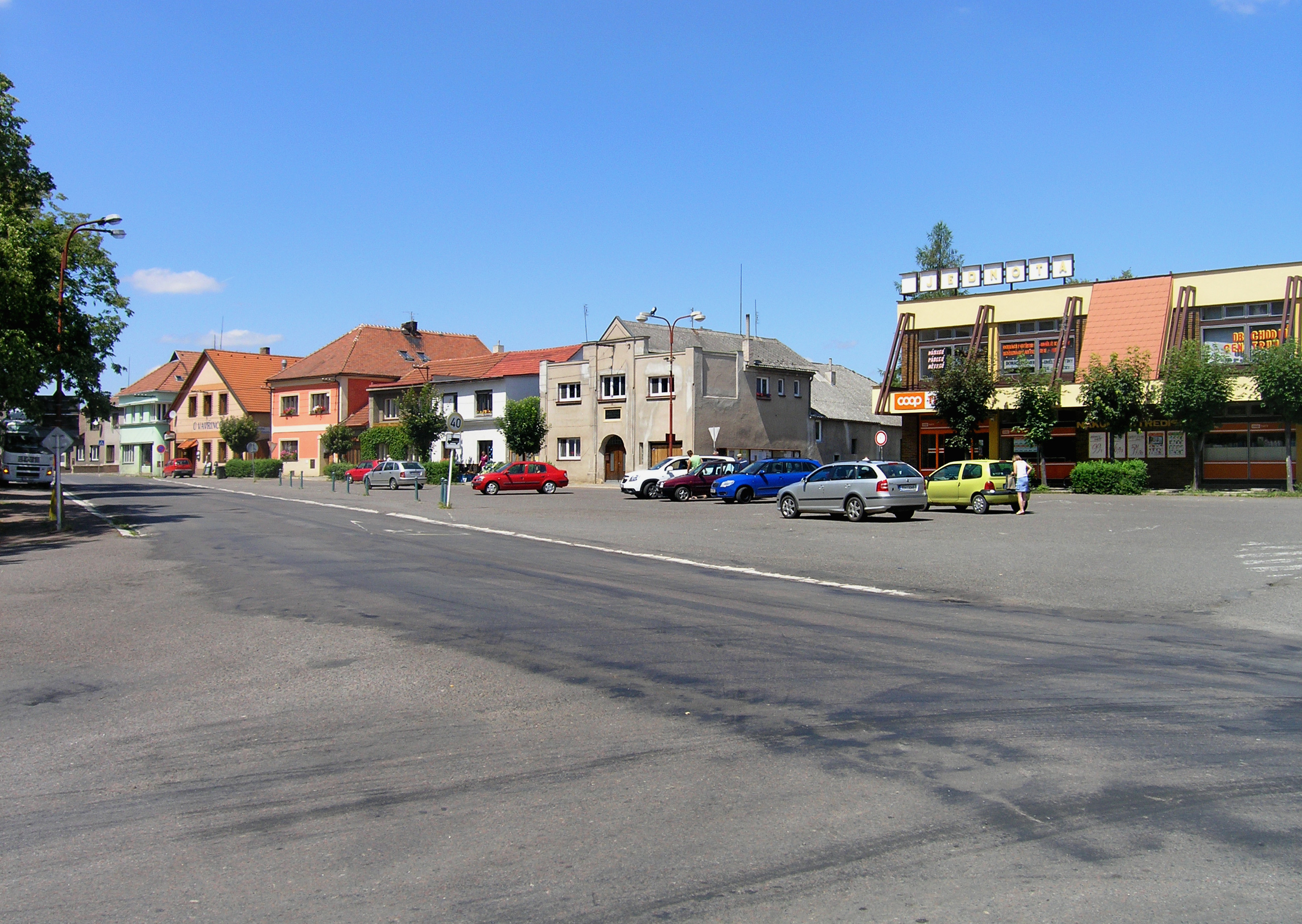 Chitussi square in Ronov nad Doubravou, Czech Republic